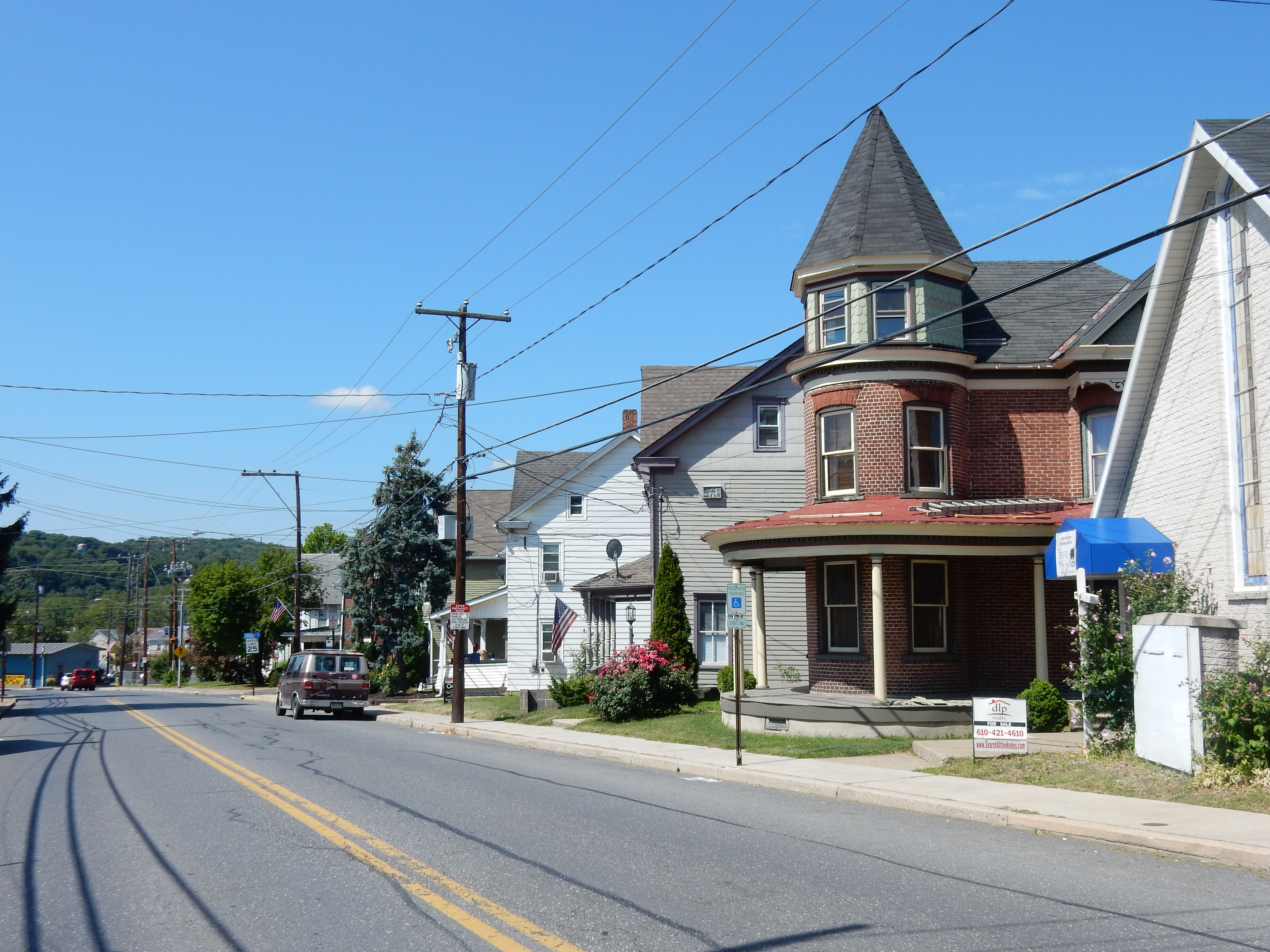 Main St., Walnutport, Northampton County, Pennsylvania. Looking west.